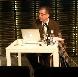 American scripwriter Greg Daniels